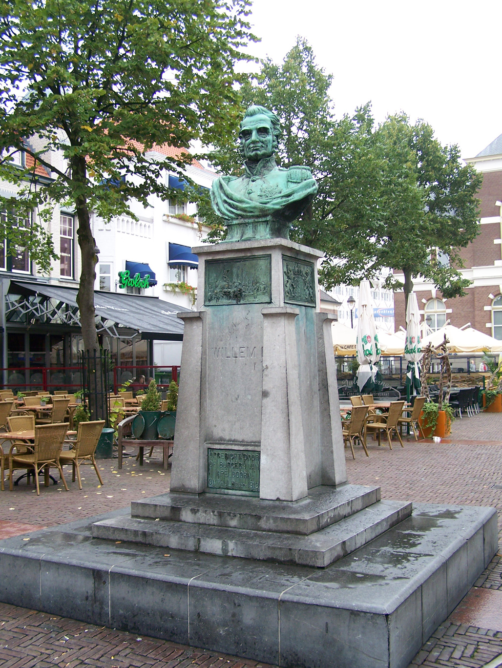 Statue of Willem I, King of the Netherlands situated in Apeldoorn. Dedicated in 1913 and made by Pieter Puype.